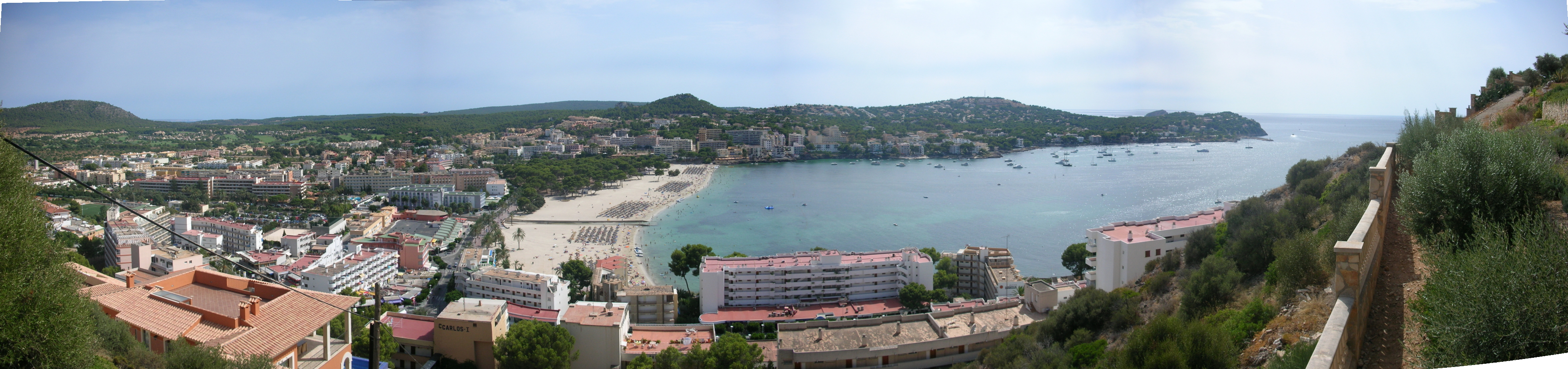 Panorama of Santa Ponsa, Mallorca